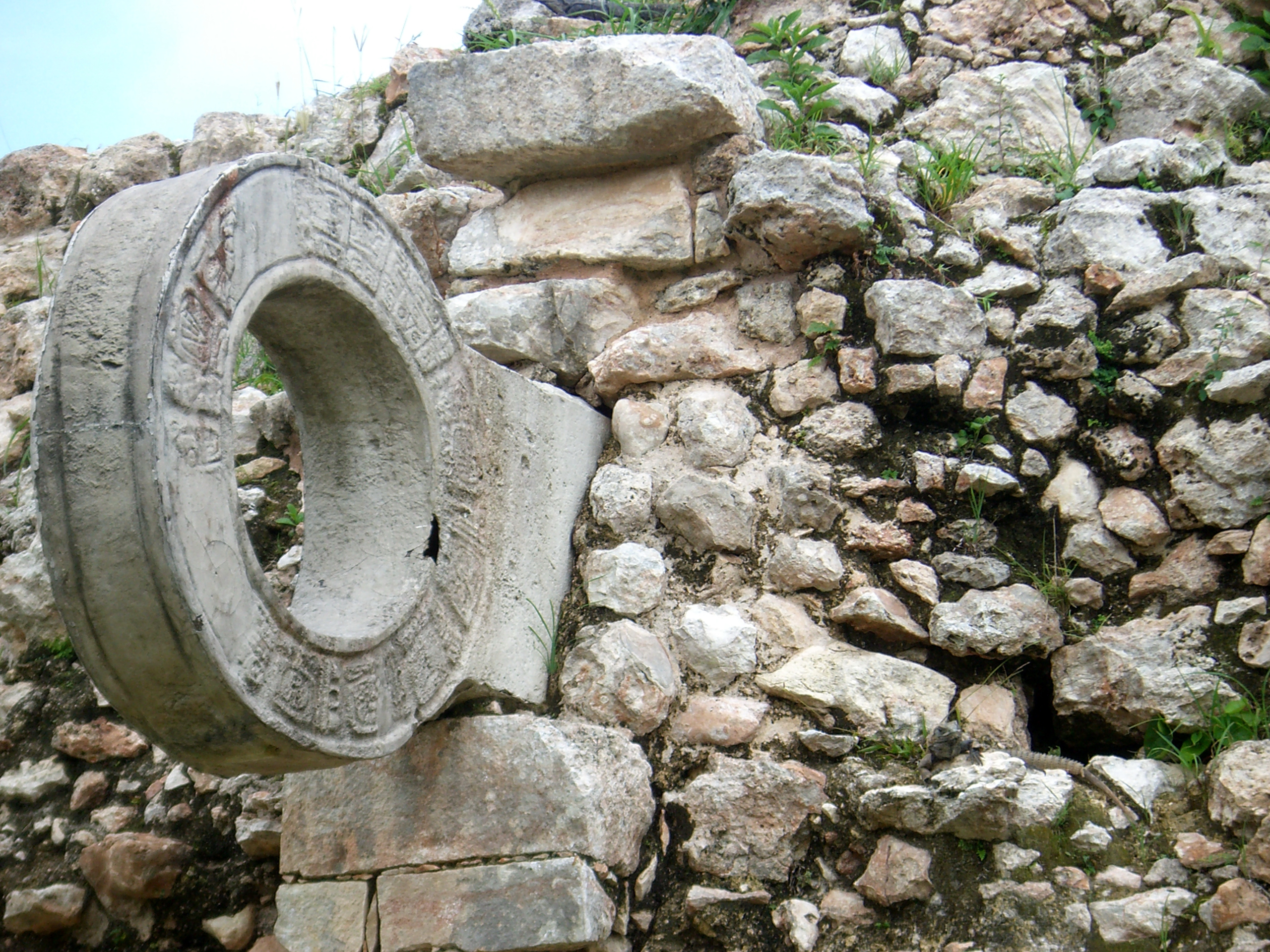 Ball courtyard in the ancient mayan city of Uxmal, Yucatán Peninsula, Mexico